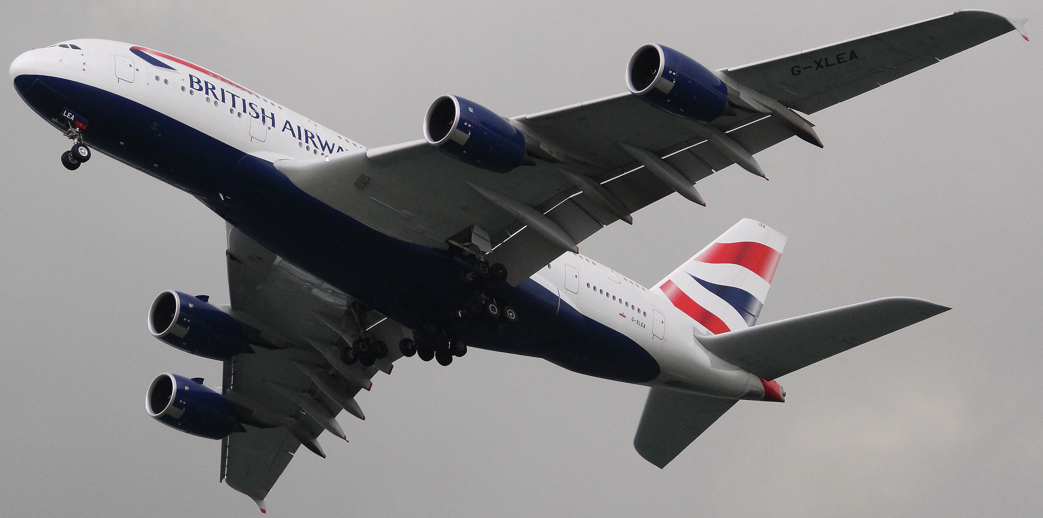 Approaching Singapore Changi 20R. Photo taken on 7 Dec 2014.